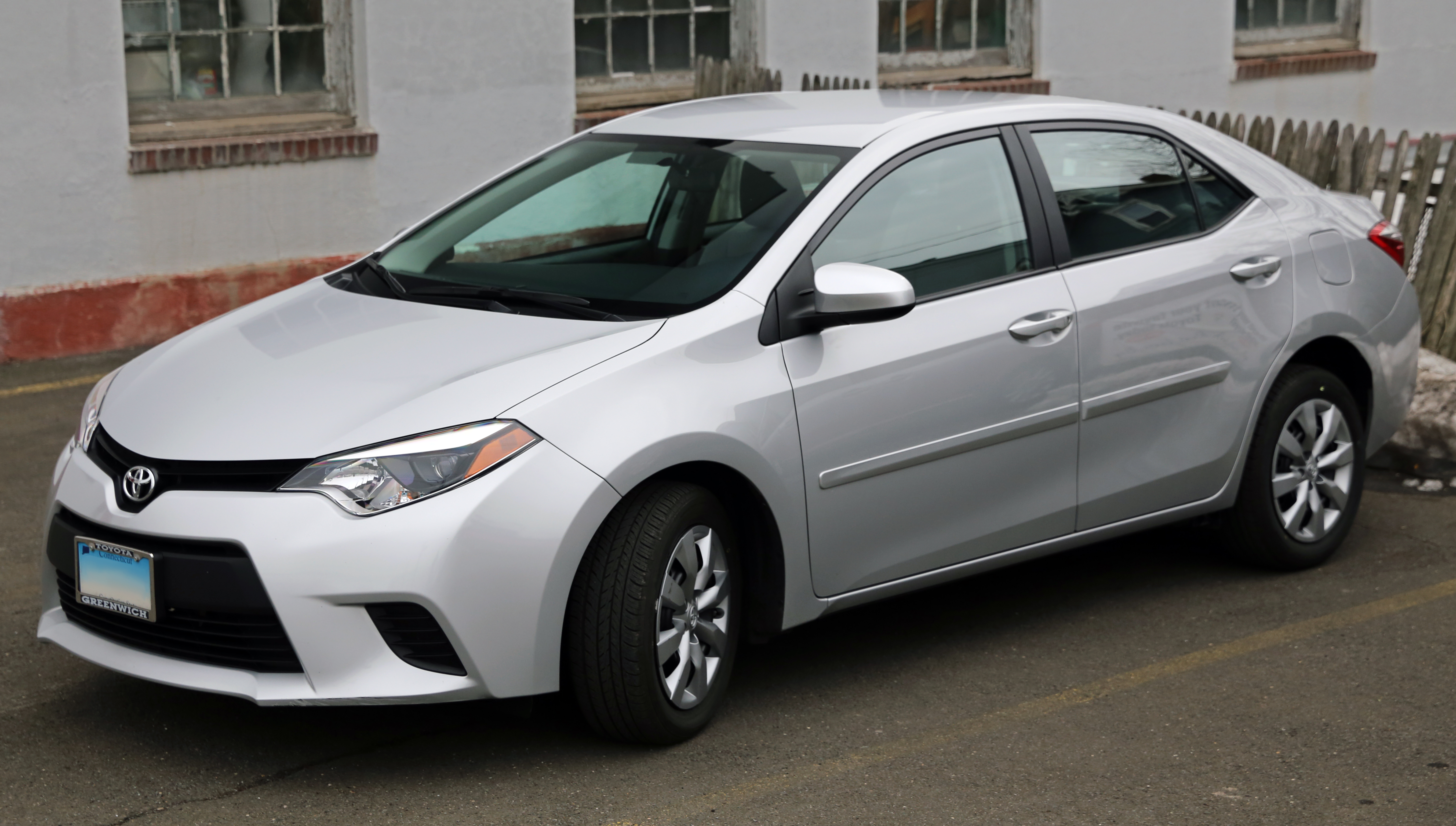 A 2014 US market Toyota Corolla 1.8 LE (ZRE172) in Greenwich, CT.